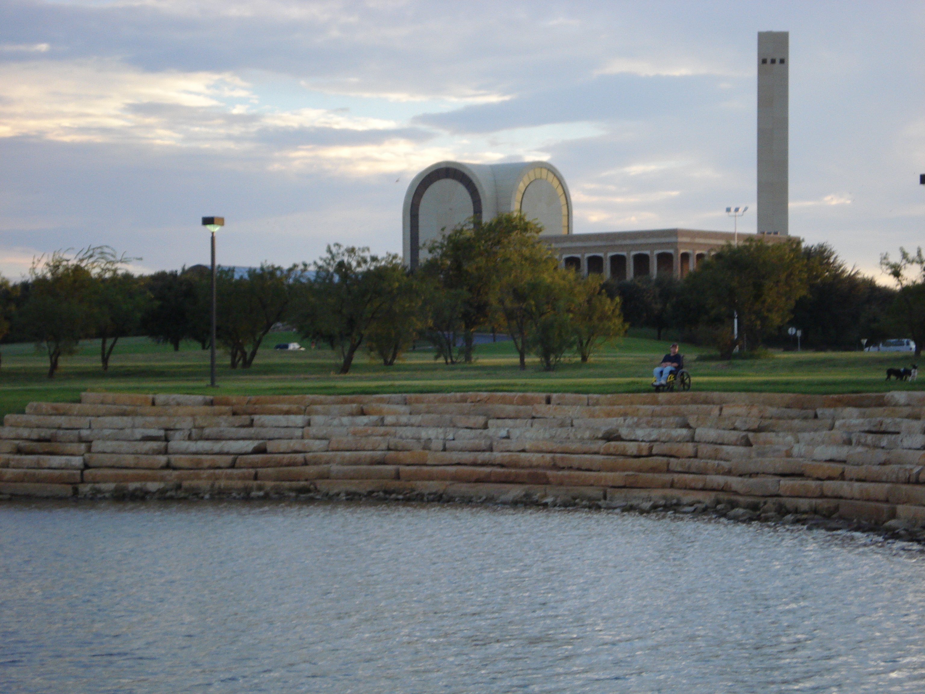 Abilene Christian University's Bible Building and Bell Tower